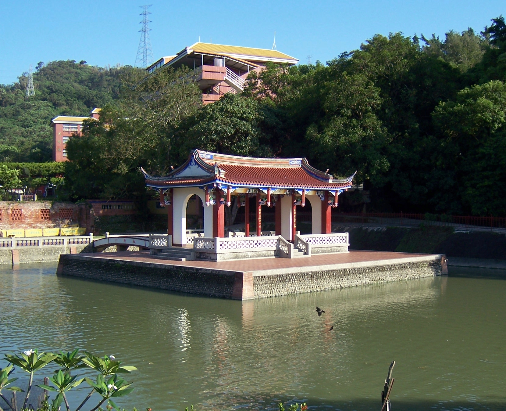 Laiyuan(Mingtai High School locates there),Wufong,Taichung County,Taiwan